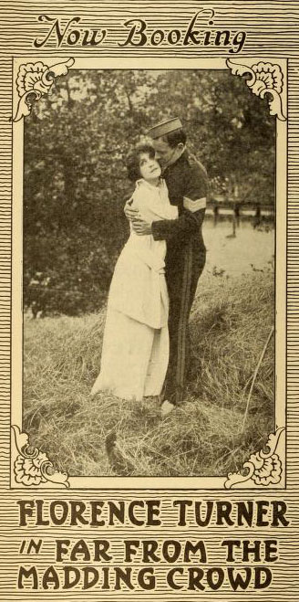 Advertisement in The Moving Picture World